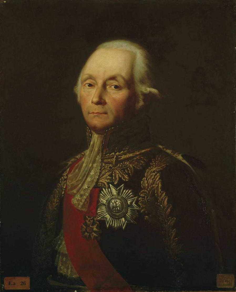 Marshal Kellermann, 1st Duc de Valmy